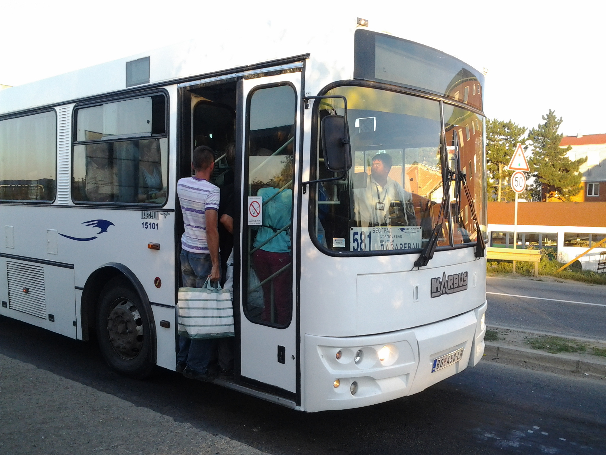 Видиковац